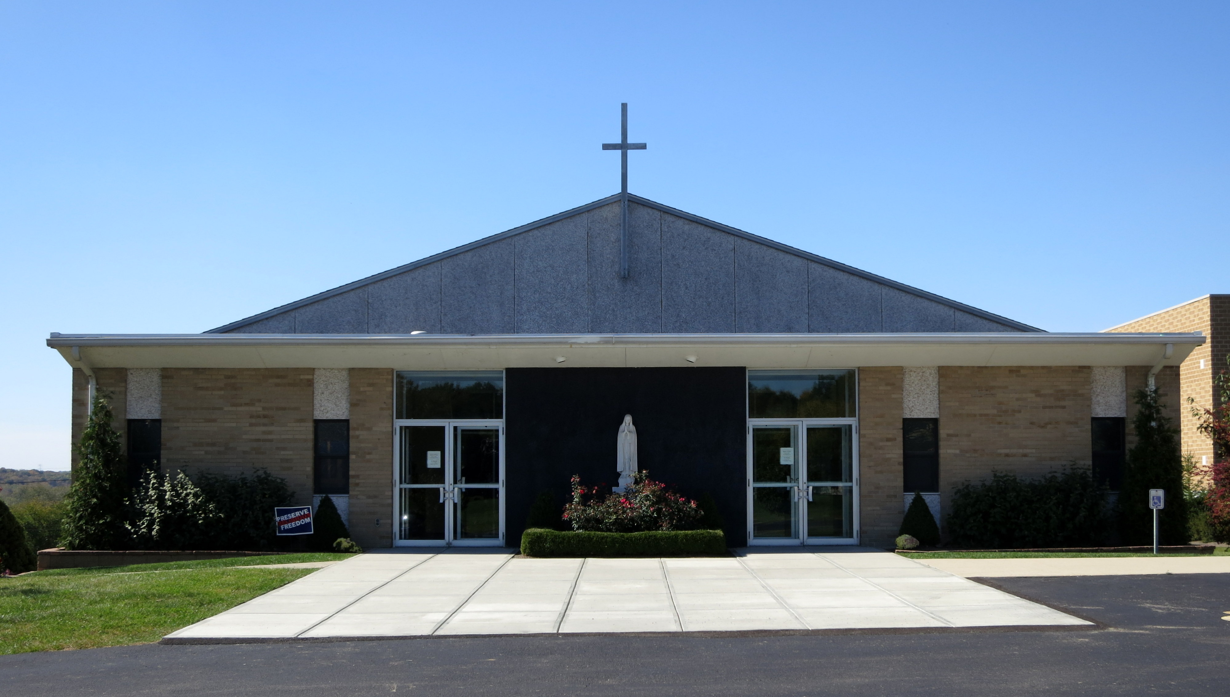 Queen of Peace Catholic Church (Millville, Ohio) - exterior